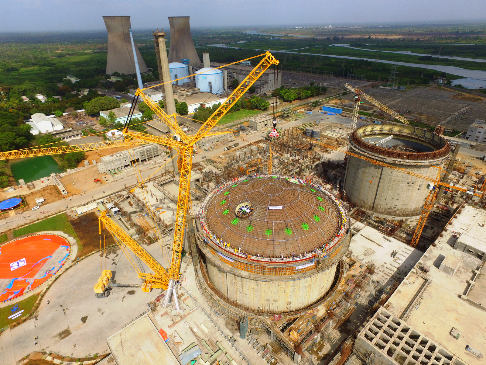 New indigenous PHWR (Pressurised Heavy Water Reactor) under-construction by NPCIL, Department of Atomic Energy